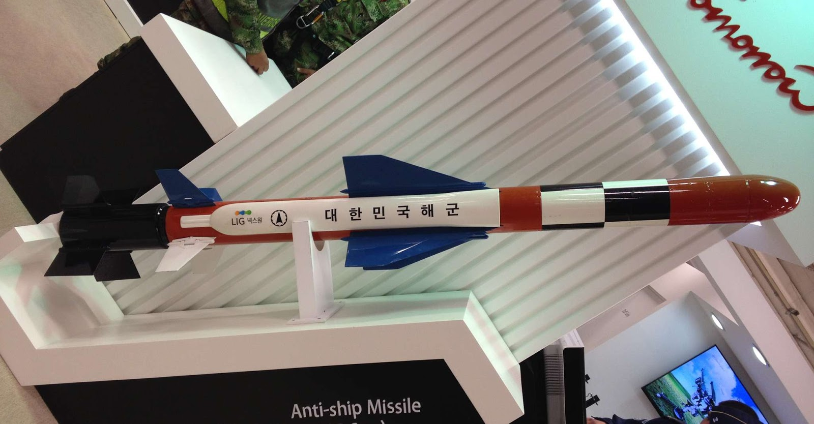 Tomada por Mario Pongutá M.Expodefensa 2014